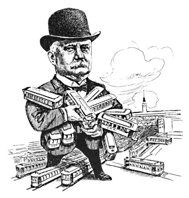 Caricature of Patrick Calhoun, streetcar financier, made about 1912.